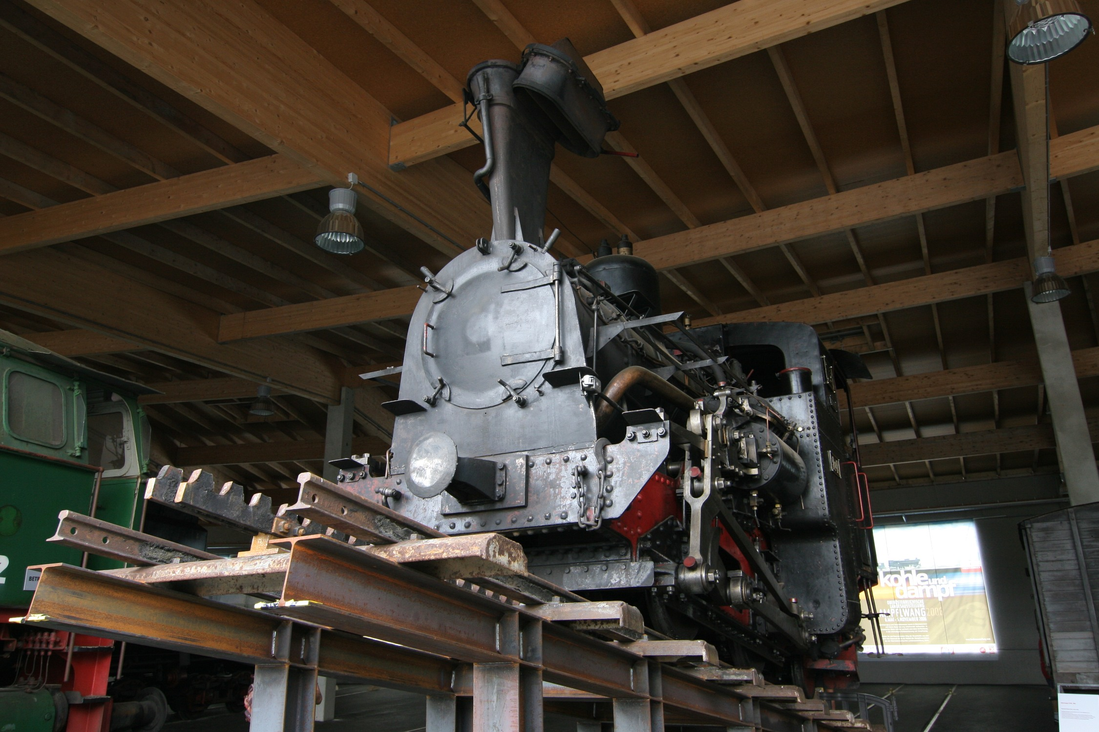 Unusual frontal view of an Austrian class 999 (SKGLB class Z) rack engine on temporary display in Ampflwang railway museum. Usually this view is obstructed by the carriages to be pushed up the mountain.